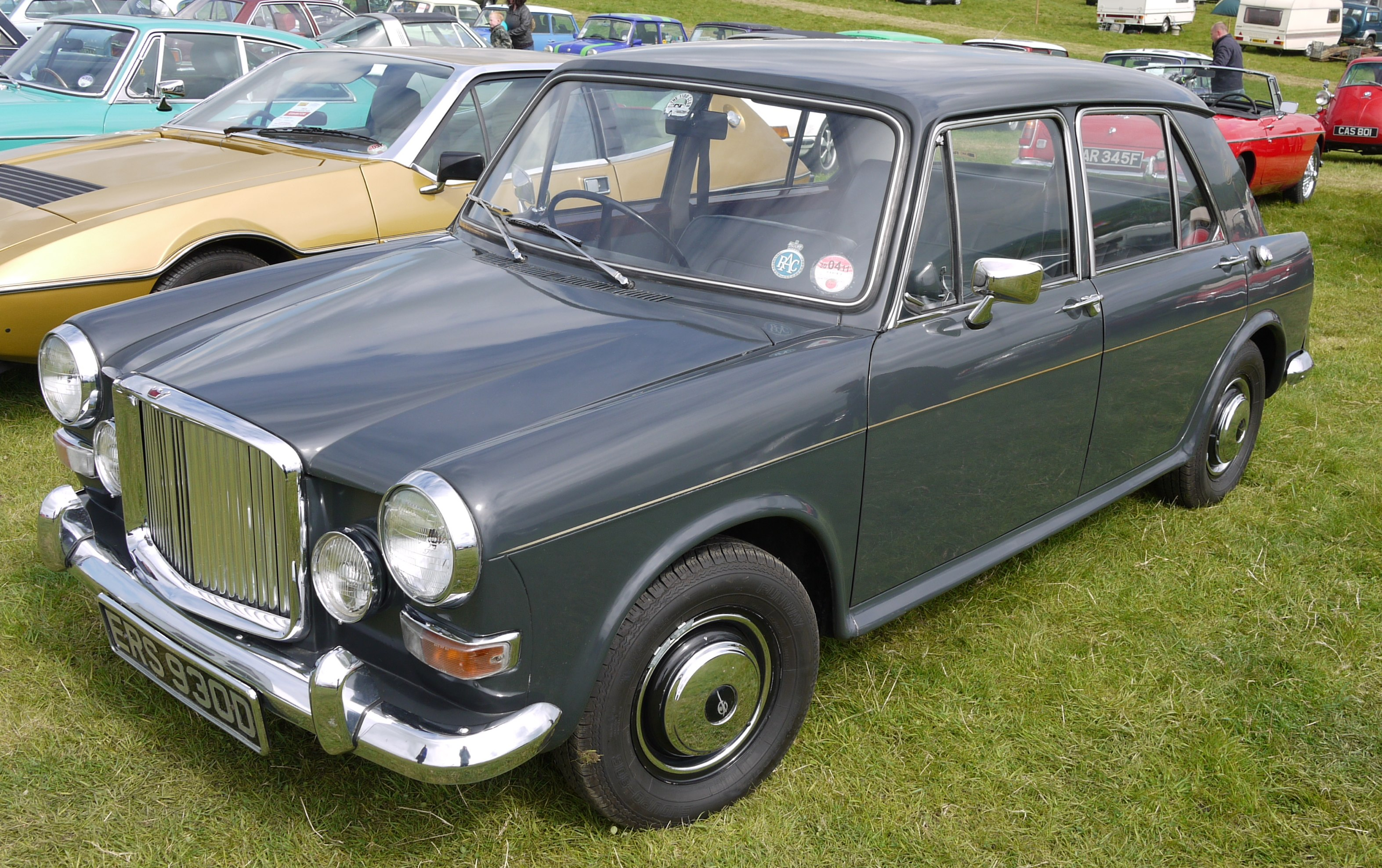 Vanden Plas Princess 1100 (Panasonic G1 14-45 Lens)